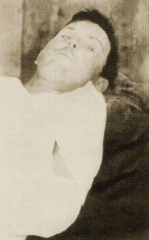 Emmet Dalton at the office Dr. Wells, after being shot 23 times during the attempted bank robbery by the Dalton Gang in Coffeyville, Kansas Oct. 5, 1892. Emmett was the only survivor of the members of the gang that attempted to rob the banks.